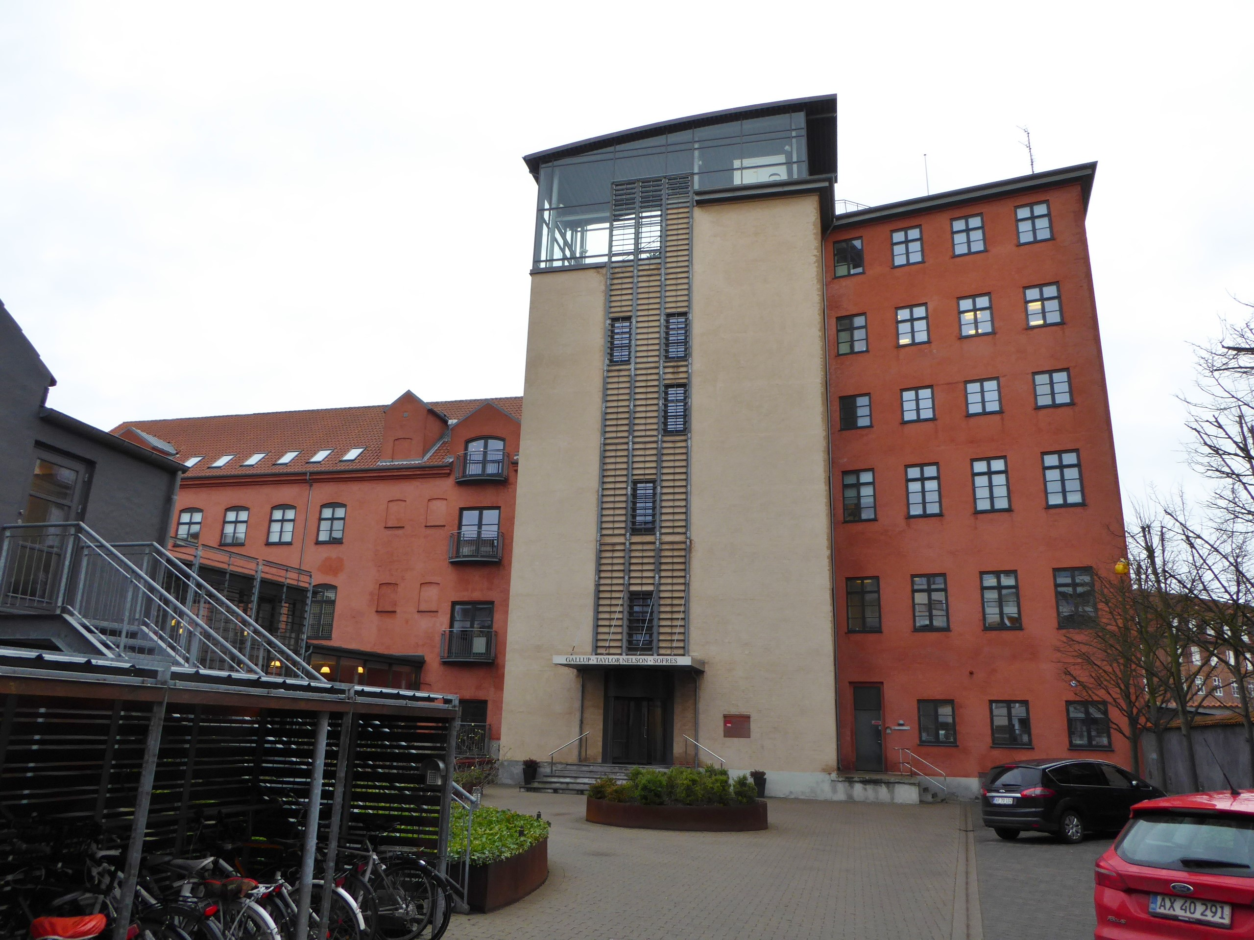 The opinion polling company TNS Gallup at Masnedøgade in Østerbro in Copenhagen.